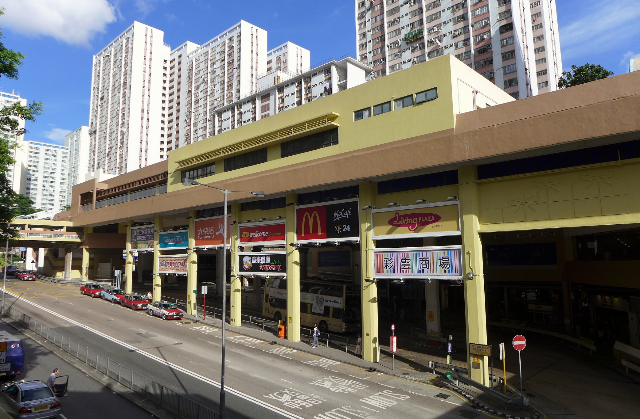 Choi Wan Estate Shopping Centre